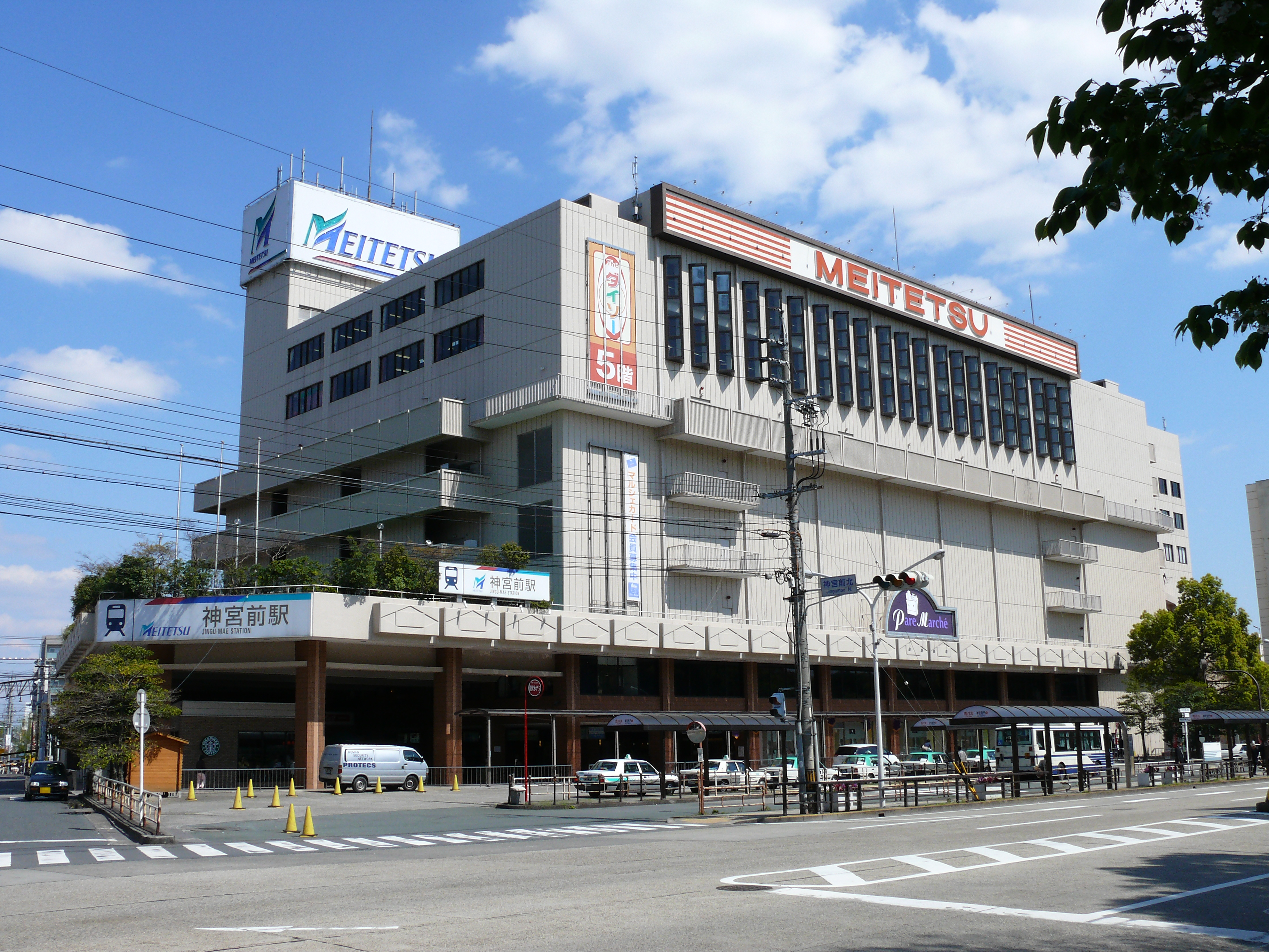 Meitetsu Jingu Mae Station.